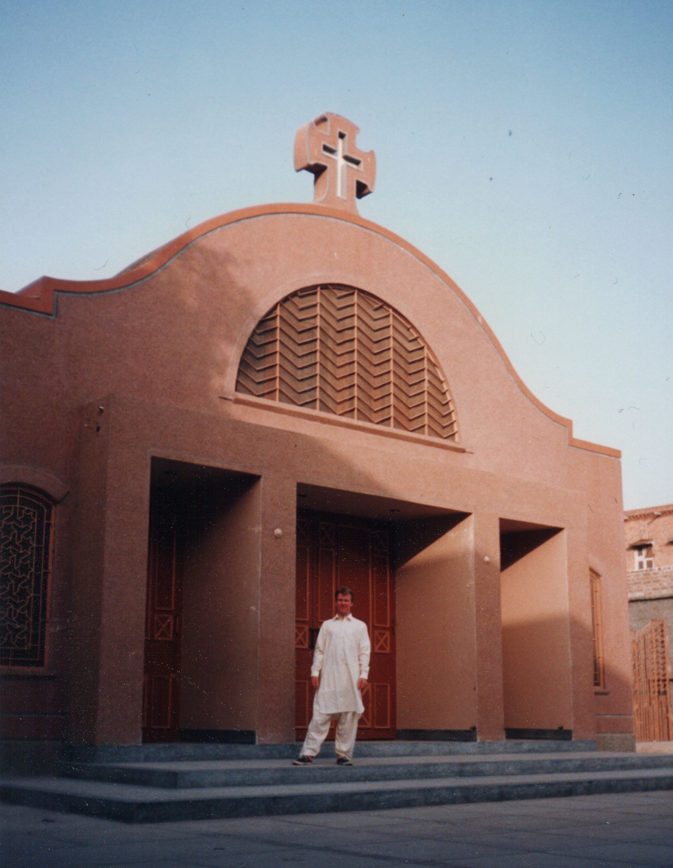 I took this photo of St. Francis Xavier Cathedral, Hyderabad, in 1992.